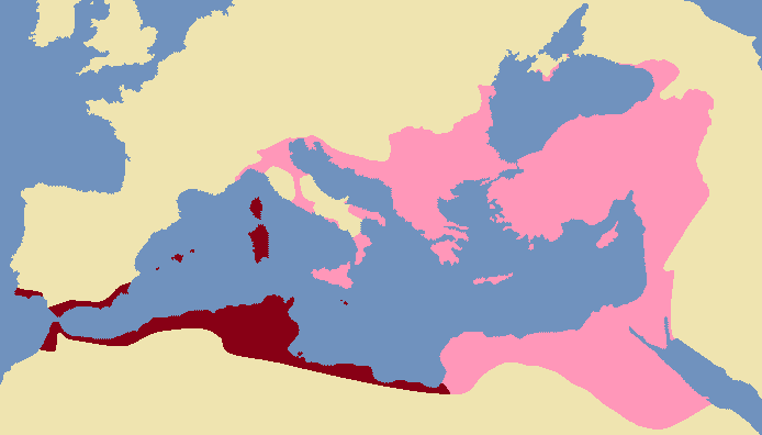 Map of the Exarchate of Africa within the Roman (Byzantine) Empire in 600 AD. Adapted from